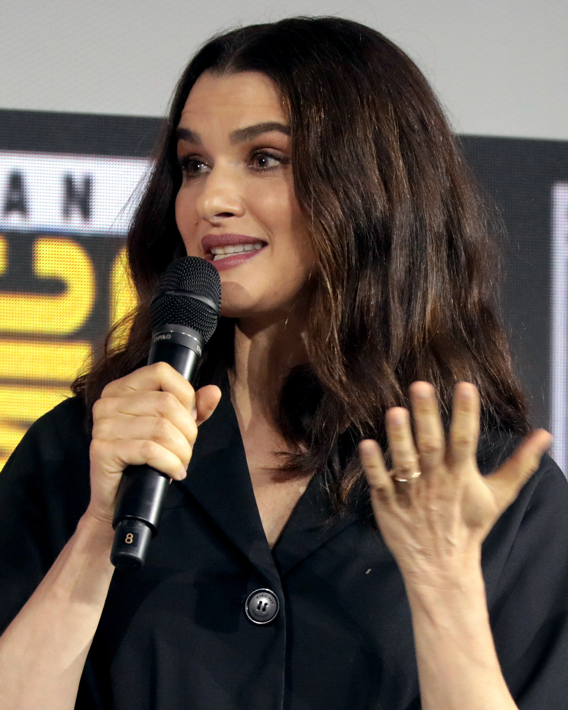 Rachel Weisz and Scarlett Johansson speaking at the 2019 San Diego Comic Con International, for "Black Widow", at the San Diego Convention Center in San Diego, California.